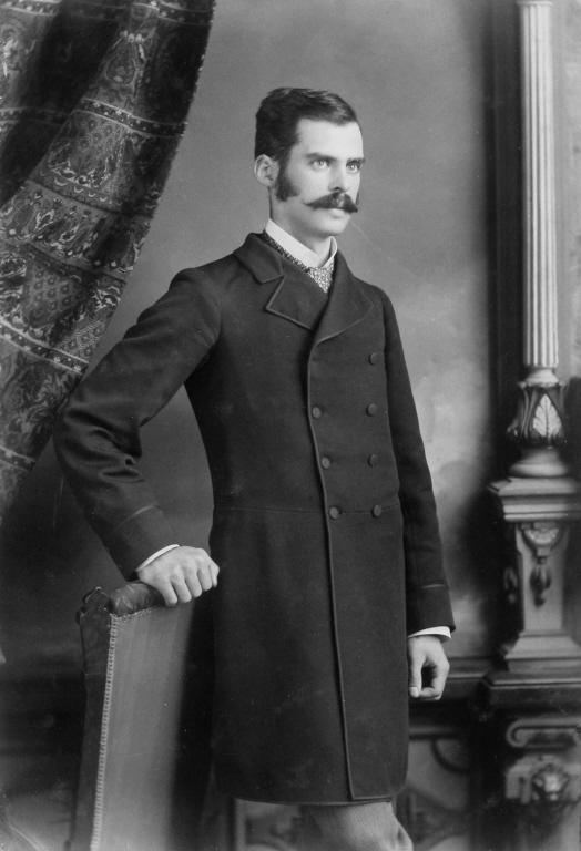 Photograph, Dr. Guerin, Montreal, QC, 1882, Notman & Sandham, Silver salts on paper mounted on paper - Albumen process - 15 x 10 cm